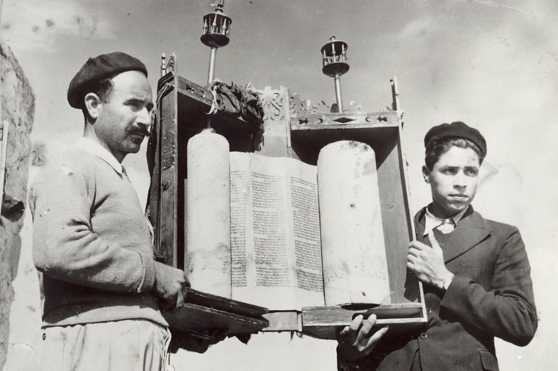 Torah Book in Porat, Religion in Israel